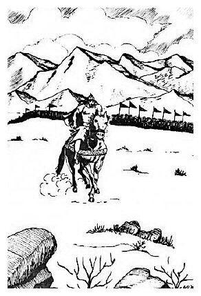 عرفجة البارقي : أحد أصحاب النبي محمد